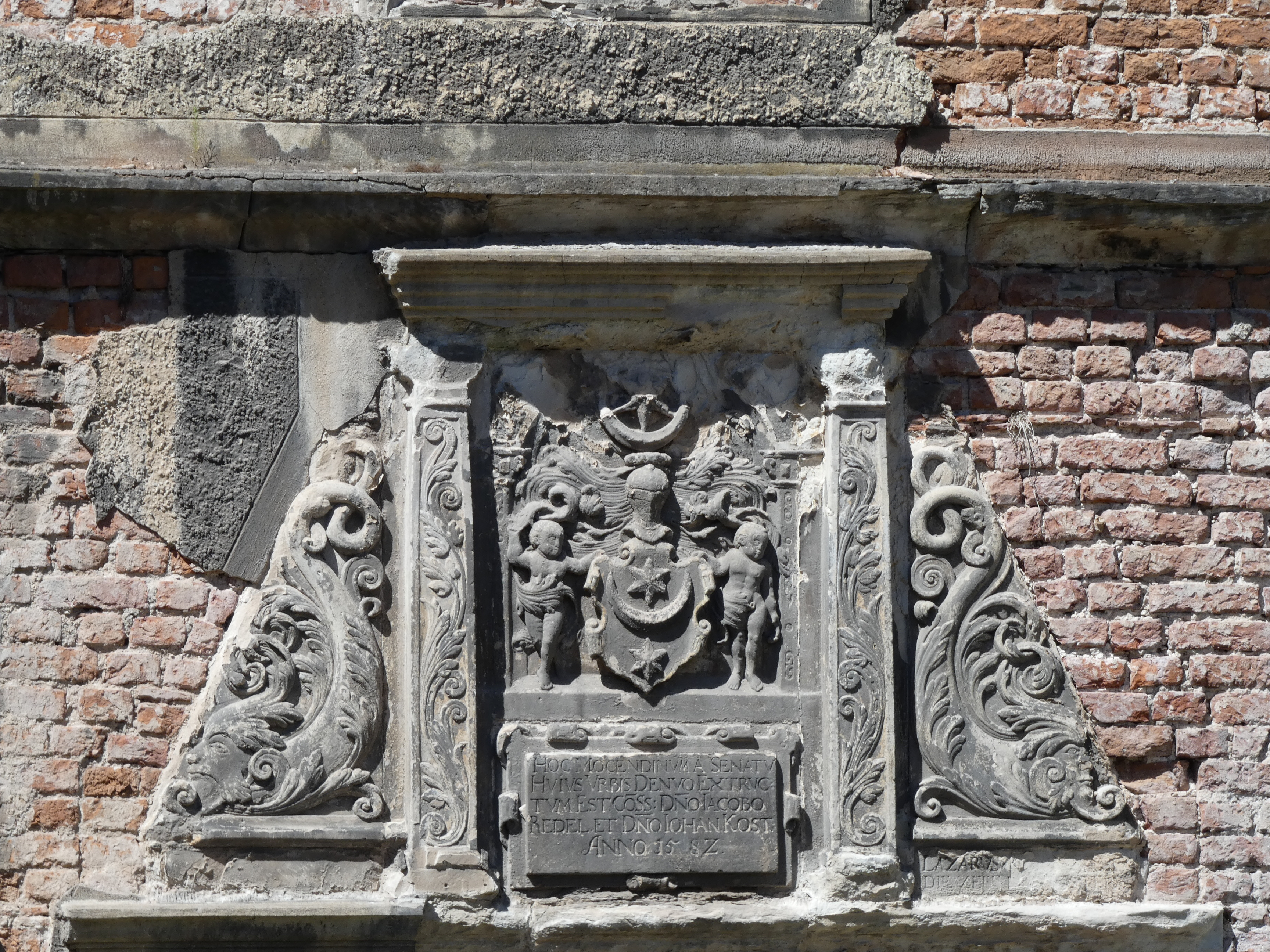 Coat of arms from 1582 at the Neumühle (new mill) in Halle (Saale)